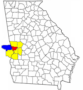 Map of Columbus-Auburn-Opelika, GA-AL Combined Statistical Area (CSA): Red: Muscogee County, Georgia (City of Columbus, Georgia) Yellow: surrounding counties included in Columbus, GA-AL MSA Blue: Lee County, Alabama (Auburn-Opelika, AL MSA)